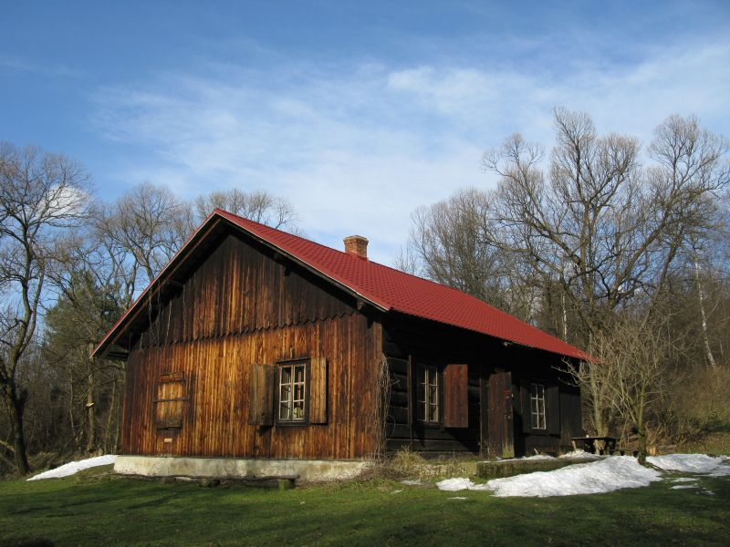 Photo of mountain hostel "Chatka Malucha" (owned by AKT Maluch, situated in Ropianka village, Beskid Niski) during it's regular usage in February, 2009.